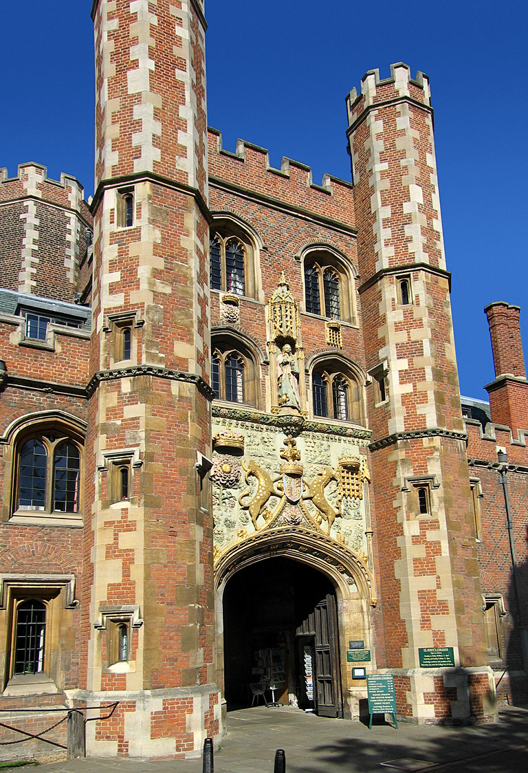 The Main Gate and original entrance to St John's College, Cambridge. Built in 1516 by the mason William Swayne. The statue above the door is of St. John the Evangelist the patron saint of the college. The rest of the carvings are the symbols and coat of arms of the Foundress of the college, Lady Margaret Beaufort. Her charges supporting the shield are mythical beasts called yale - chimera with the head of a goat, the body of an antelope and the tail of an elephant. A yales horns were supposed to be able to swivel from back to front which is why they are shown pointing in opposite directions.